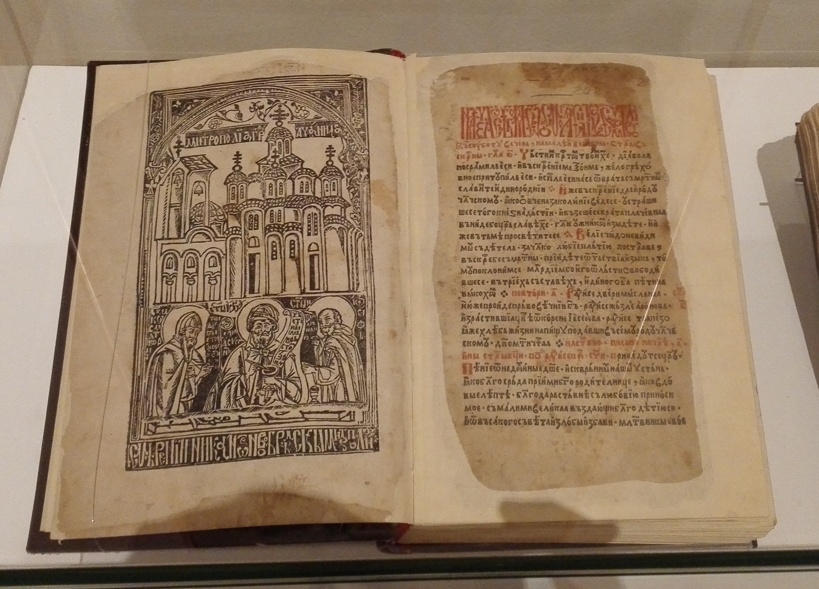 Octoechos of Gračanica, Mode 5-8 Gračanica monastery, 1538/1539 Belgrade, Museum of the Serbian Orthodox Church